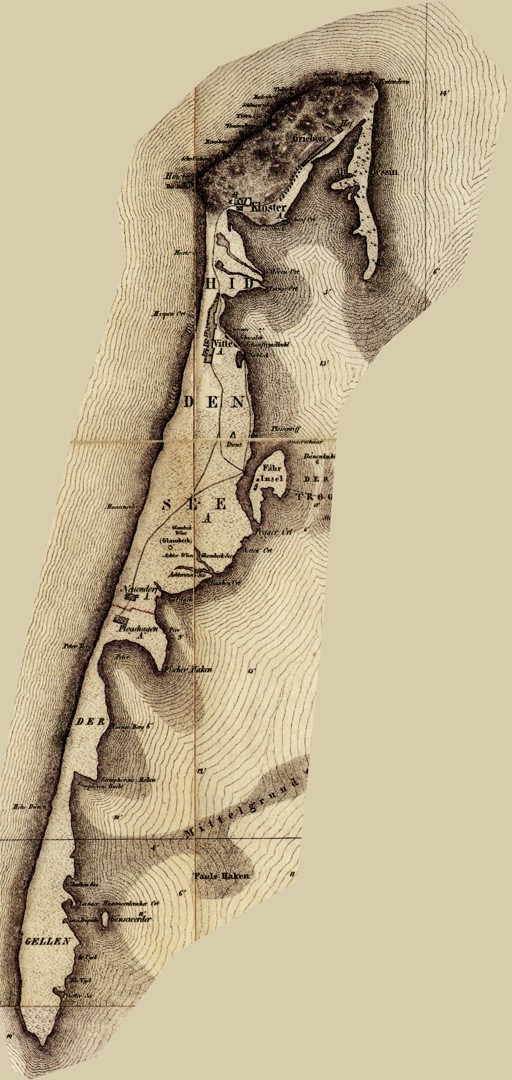 Detail from the "Special Charte von Rügen" from the year 1829